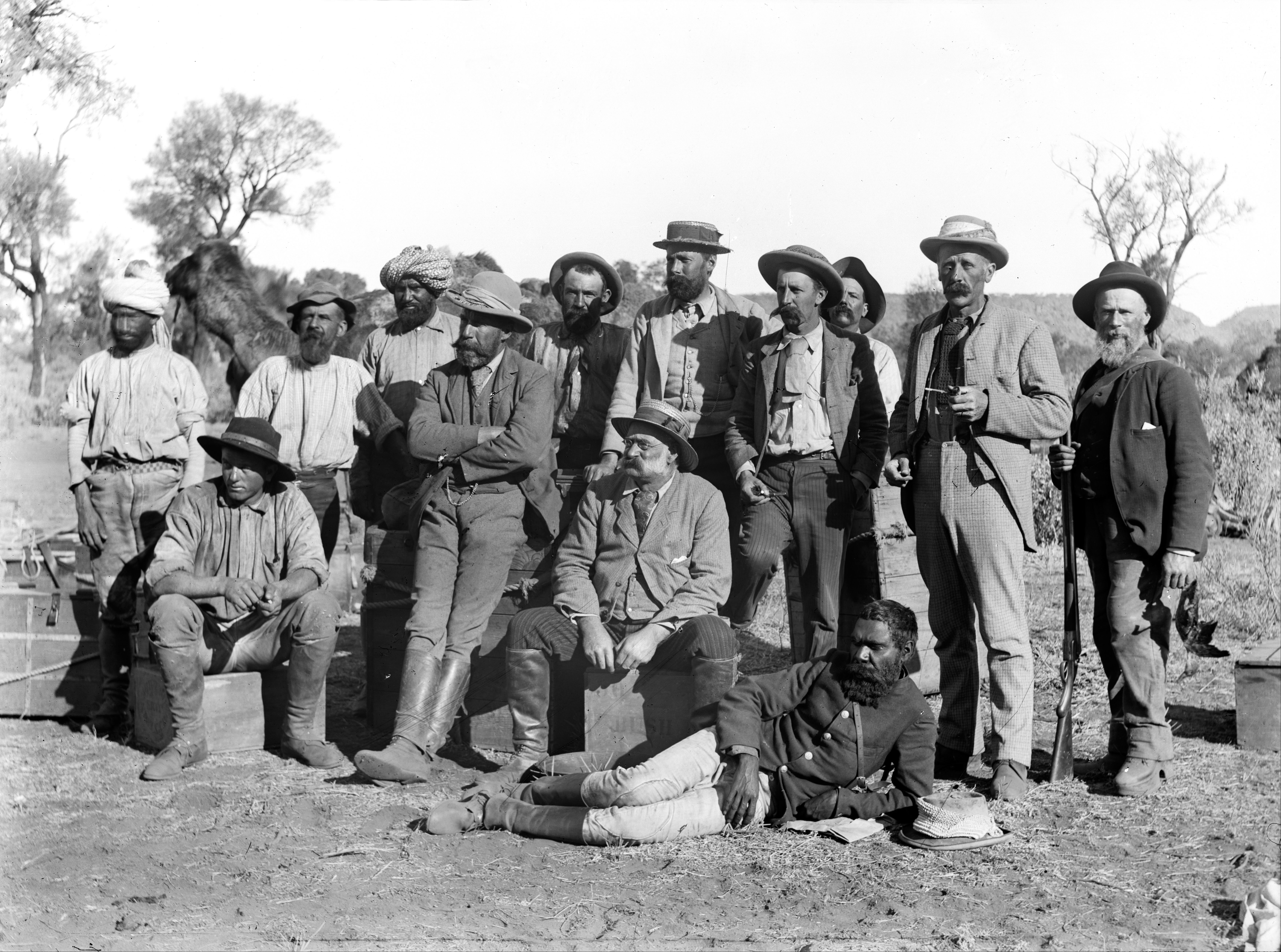 Members of the Horn Expedition at Alice Springs. Pictured in the photograph are Francis W Belt, C Laycock, Edward Stirling, Ralph Tate, J Alexander Watt, Walter Baldwin Spencer, Charles Winnecke (principal author of the Journal of the Horn Scientific Exploring Expedition 1894 (published 1897), G A Keartland, Harry (tracker of the Native Mounted Police), Afghan camel drivers (Moosha and Guzzie Balooch), a prospector, and another camel man.